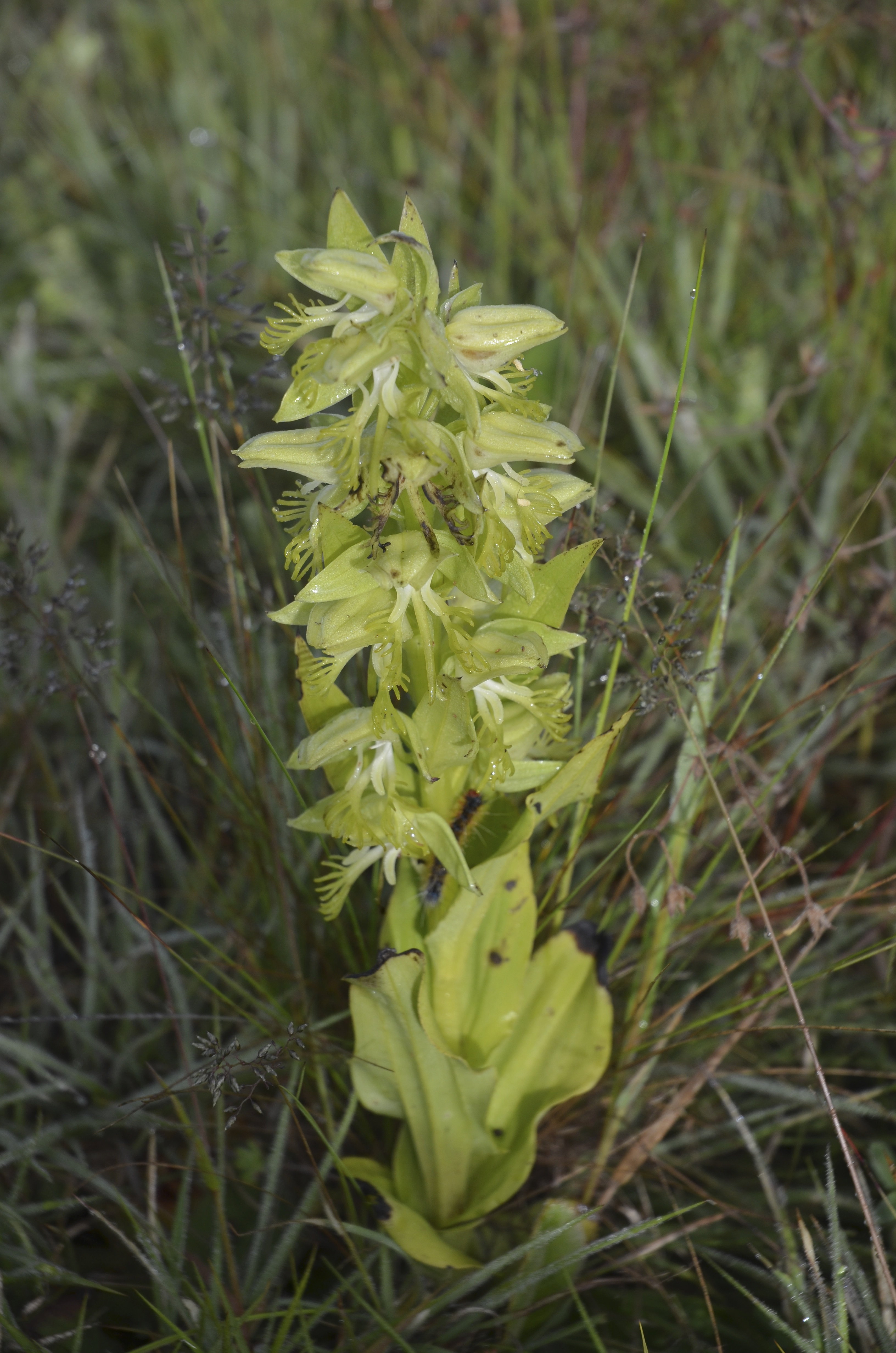 Habenaria occlusa or praestans Picture taken in Kitulo National Park.